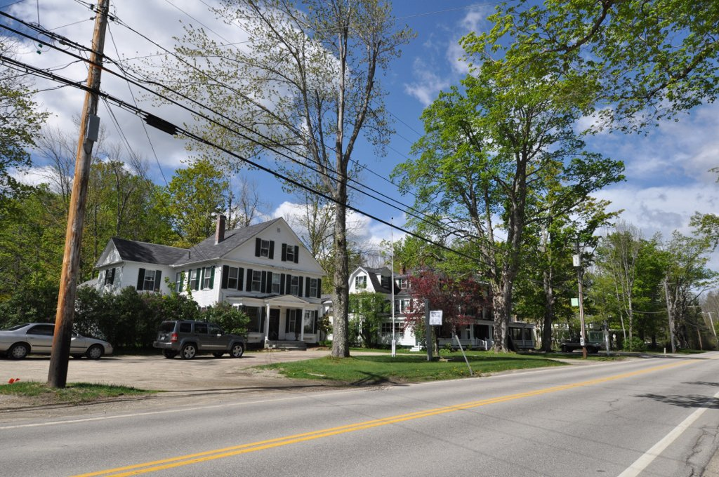 The Monadnock Inn, located in a historic building in the Jaffrey Center Historic District of Jaffrey, New Hampshire.